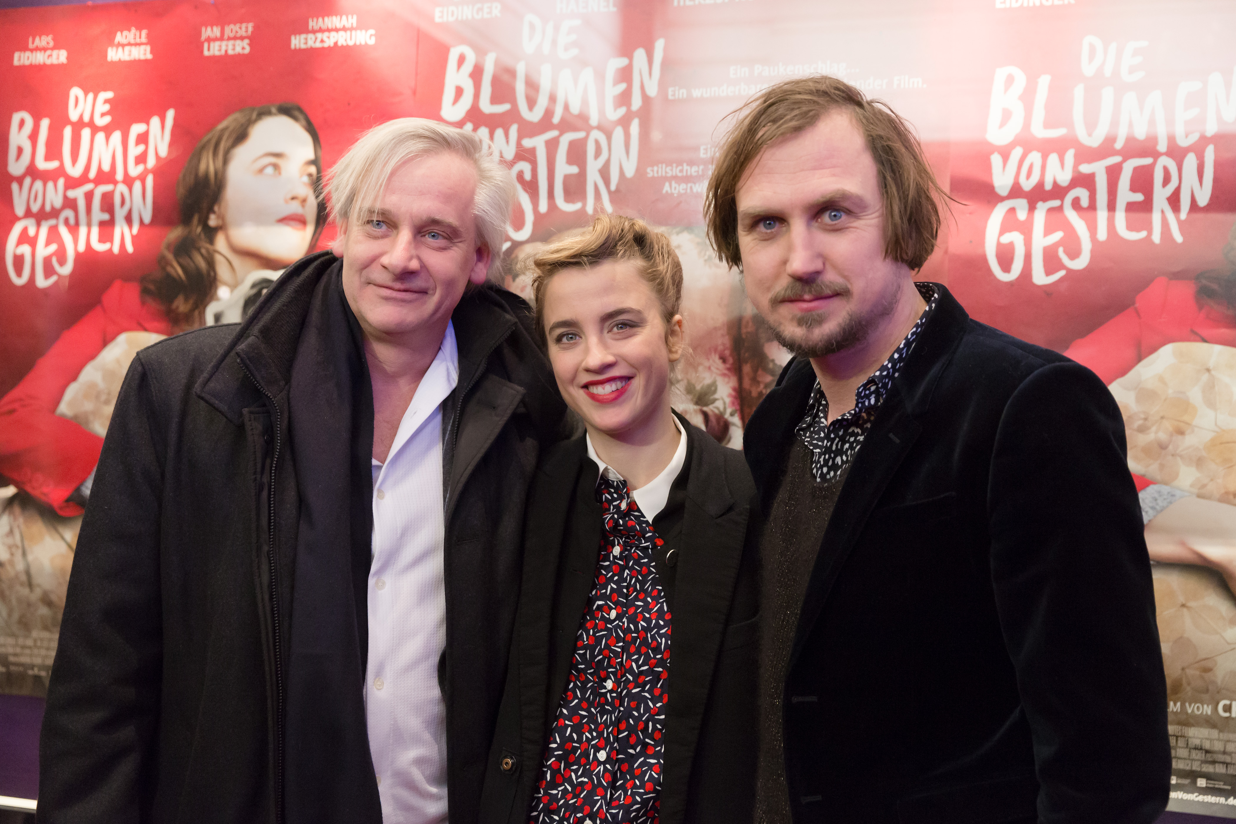 Chris Kraus, Adèle Haenel and Lars Eidinger at the Austrian premiere of Die Blumen von gestern at Gartenbaukino, Vienna, Austria.